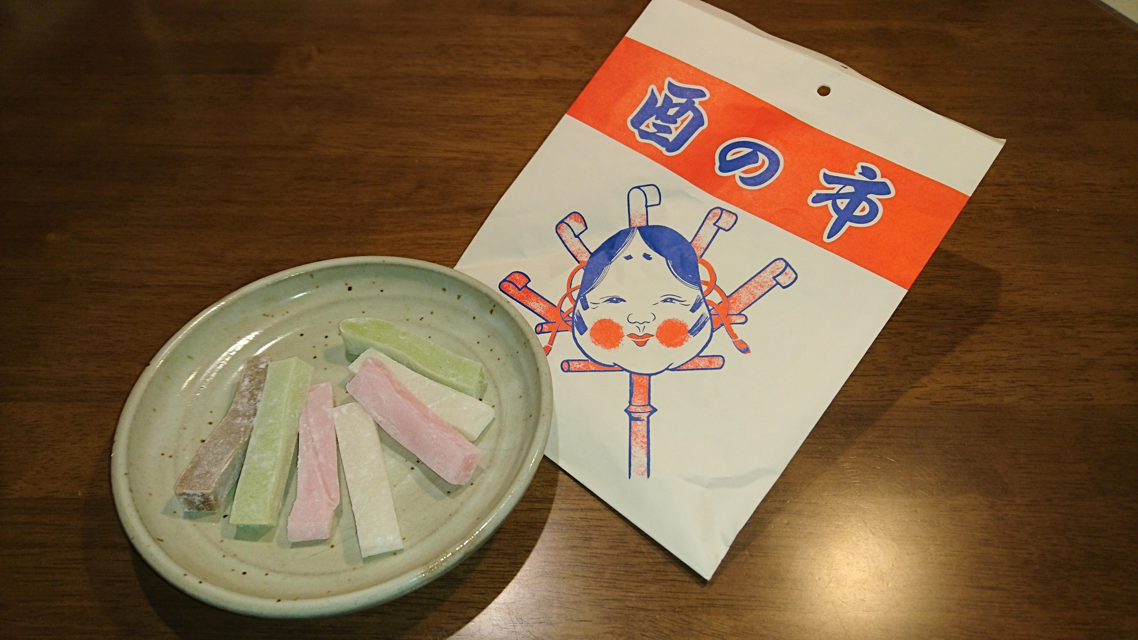 Kiri Zanshō. A strip-shaped rice cakes flavored with Japanese peppers.